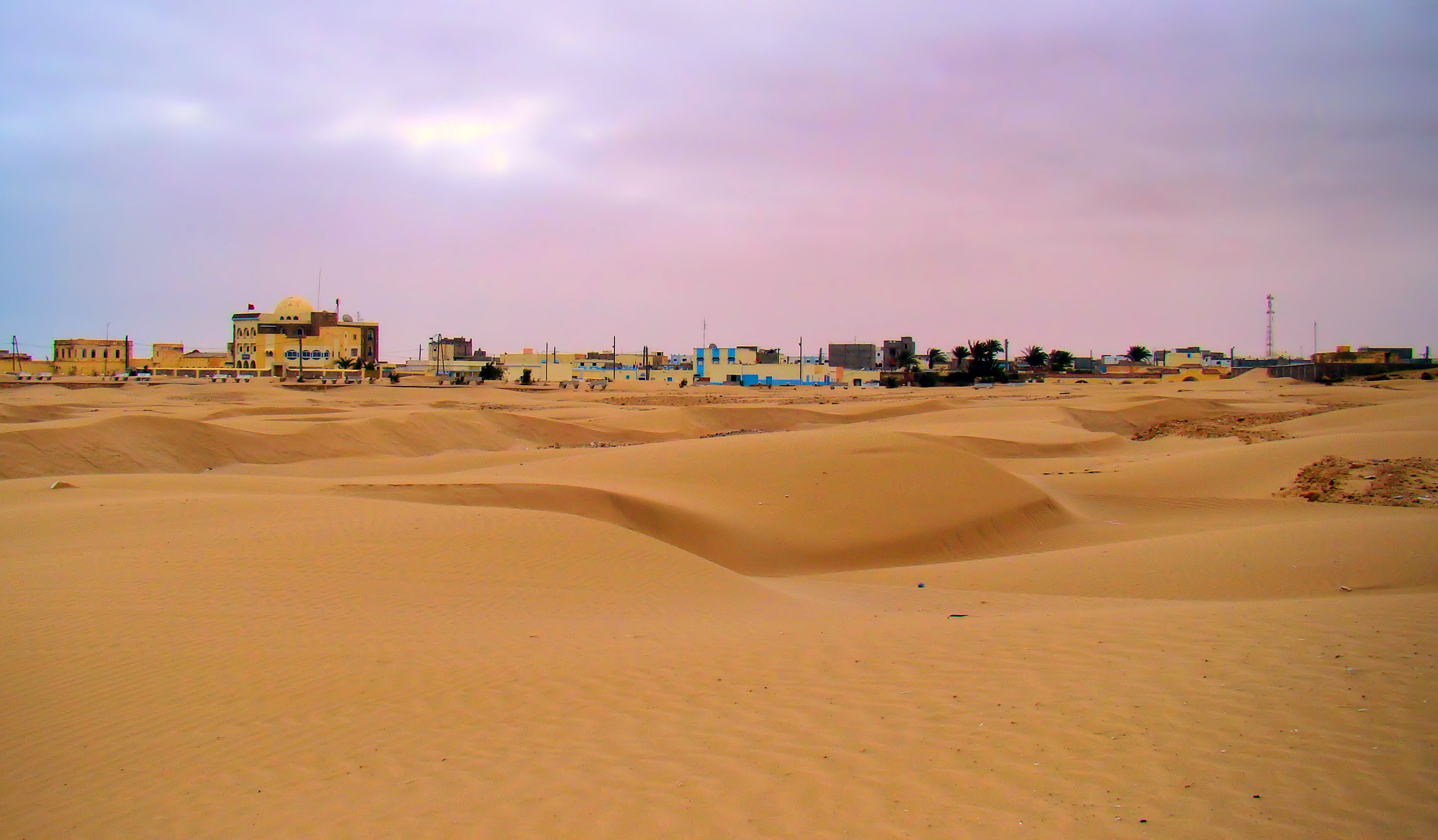 The centre of Tarfaya seen from the seaside.